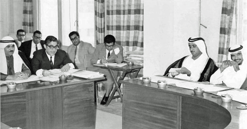 Group photo of Sh. Khaled - Sh. Maktoum - Sh. Tahnoon - Adi Bitar